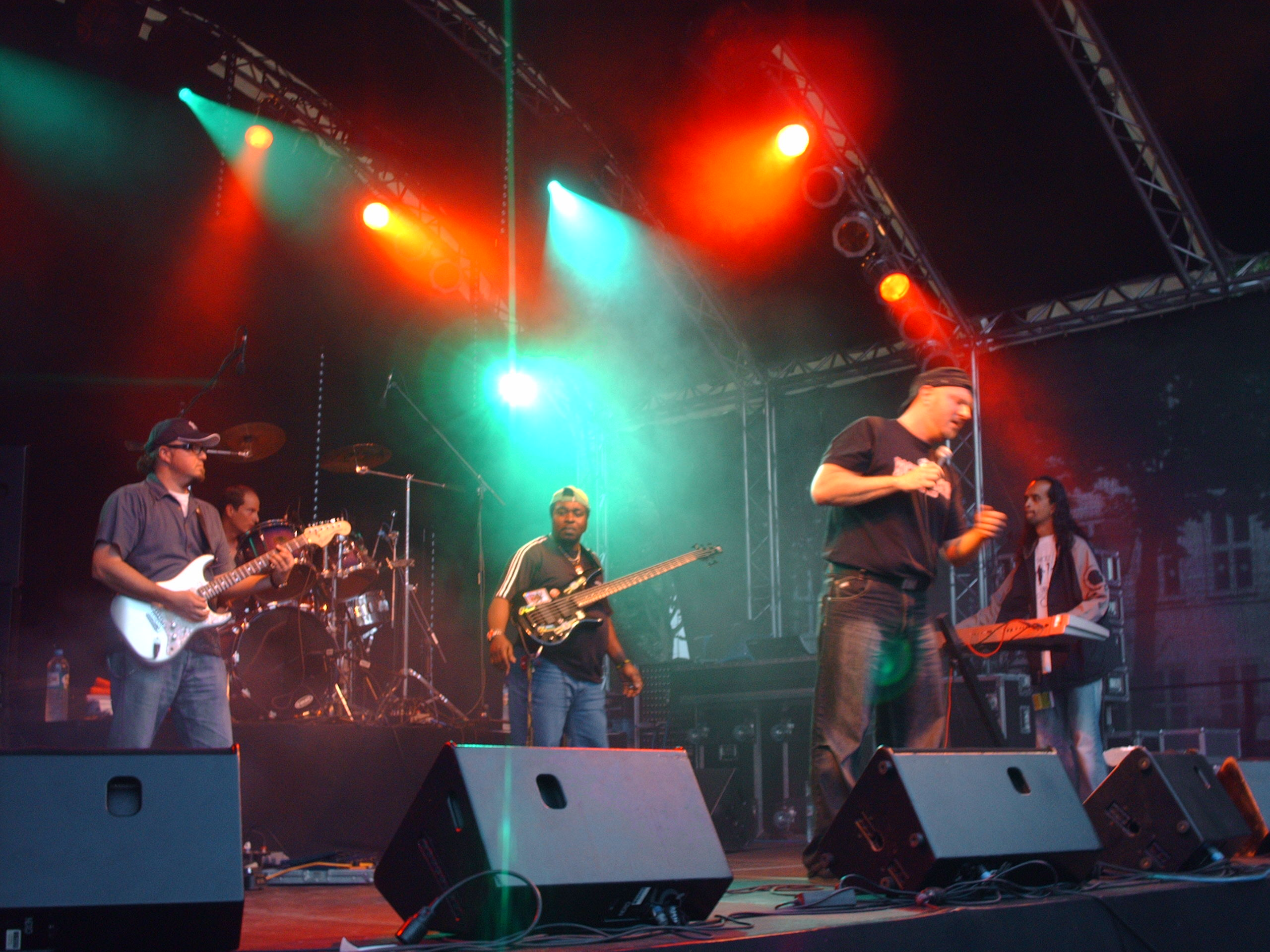 Dr. Ring-Ding and band at Gauklerfest, Attendorn, Germany check usage